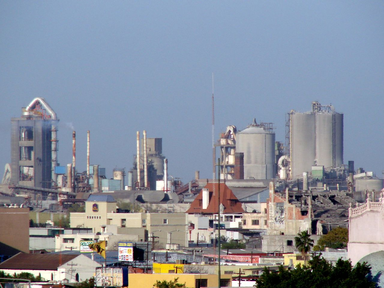 Cement Factory (CEMEX) Monterrey México